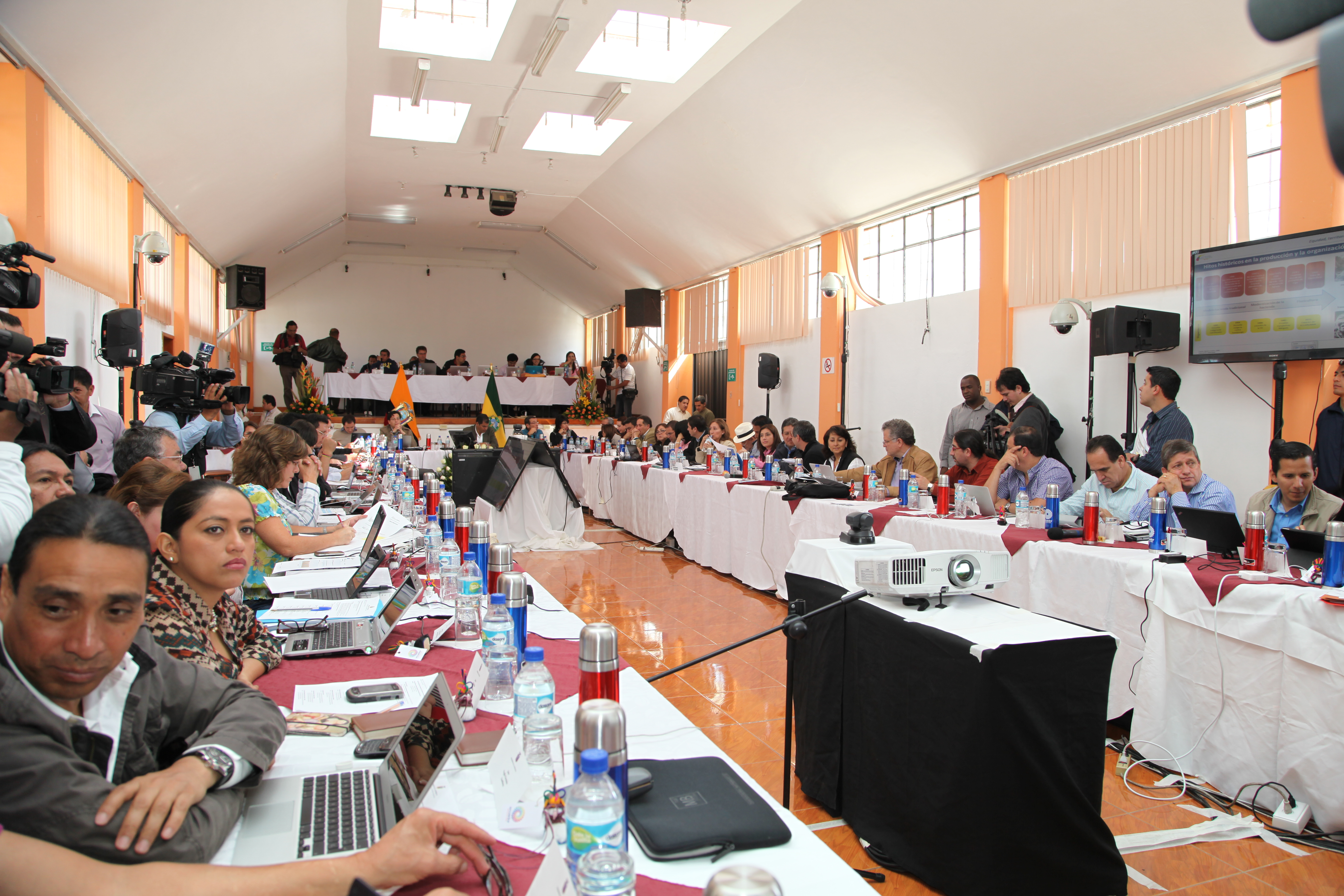 A travelling session of the Ecuadorian Cabinet in Cayambe, Ecuador, on 1 June 2012.